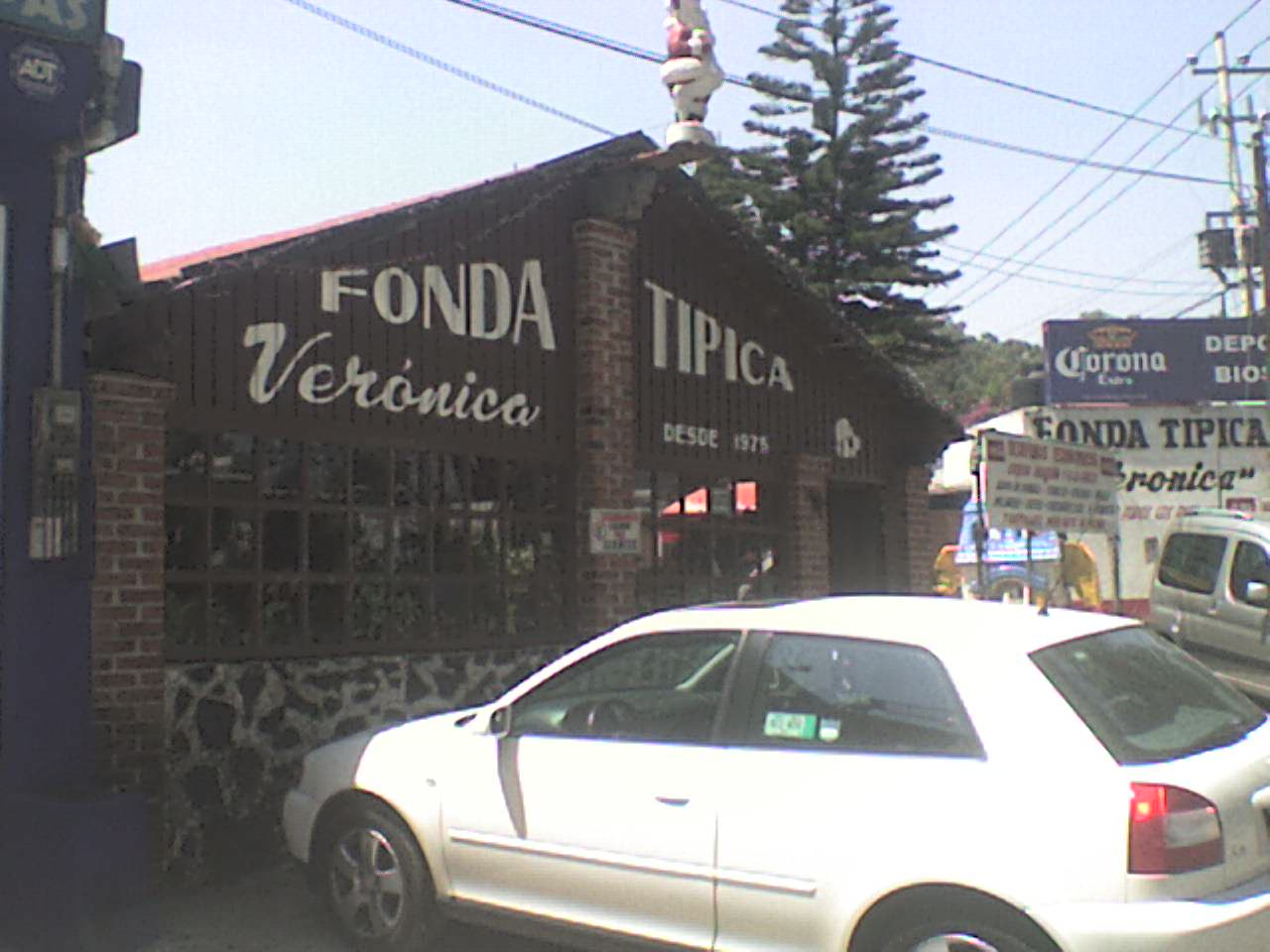 Fachada del Restaurante Fonda Vernoica, en Santa María